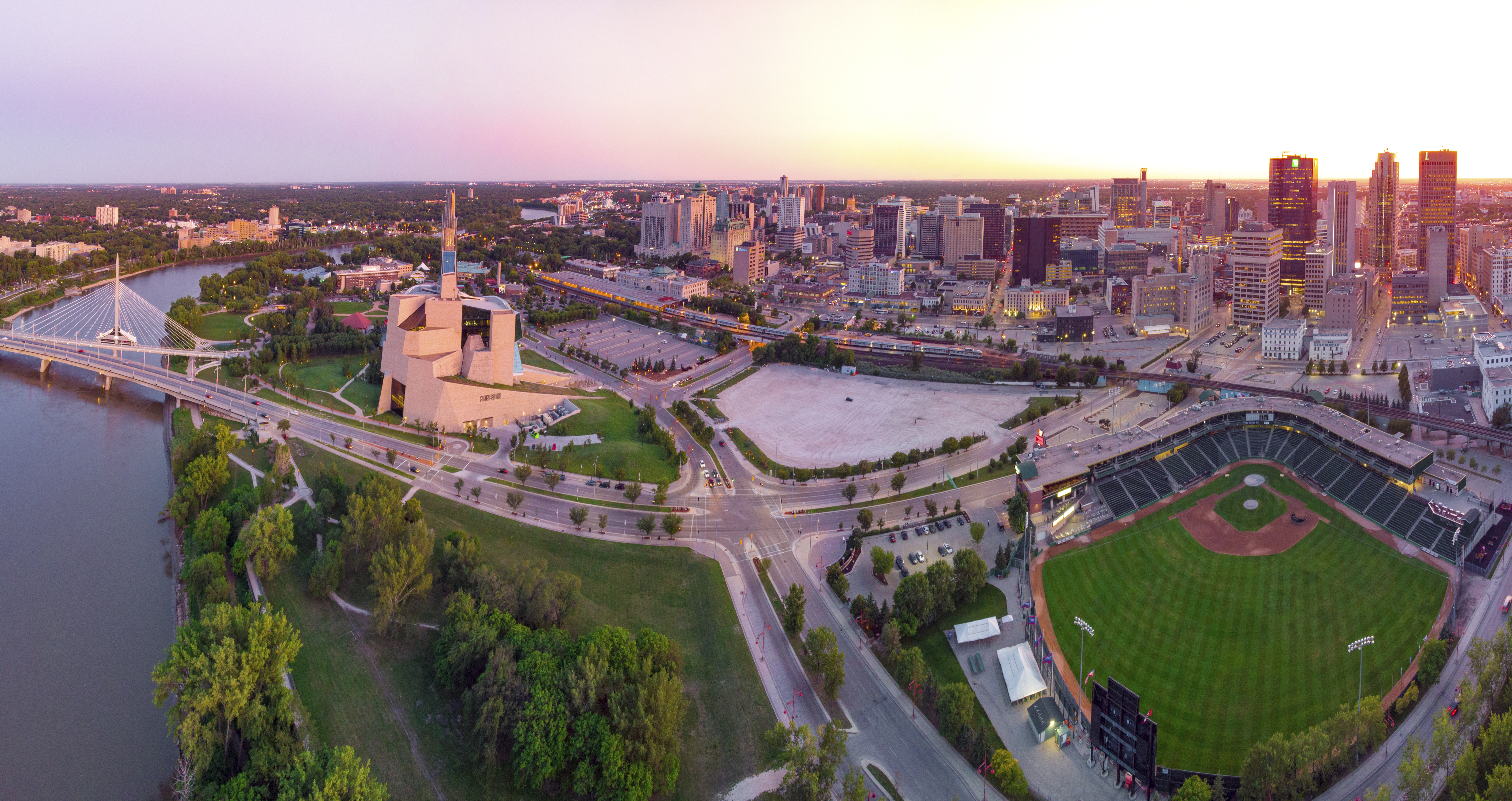 panorama of Downtown Winnipeg